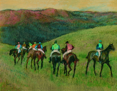 Race Horses in a Landscape